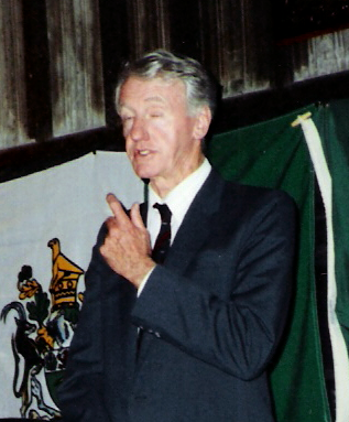 Kent Ian Smith makes a point at a dinner organised in his honour by Denis Walker (far left) at Lympne Castle, Kent, July 23, 1990. Smith is flanked by Nicholas and Anne Winterton, both MPs, and Rhodesian flags. (original description; image cropped) Original here: File:Smith Dinner.jpg Original by Counter-revolutionary at en.wikipedia